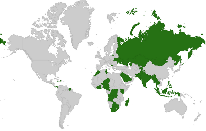 Map of Wikipedia Zero countries as of January 2015